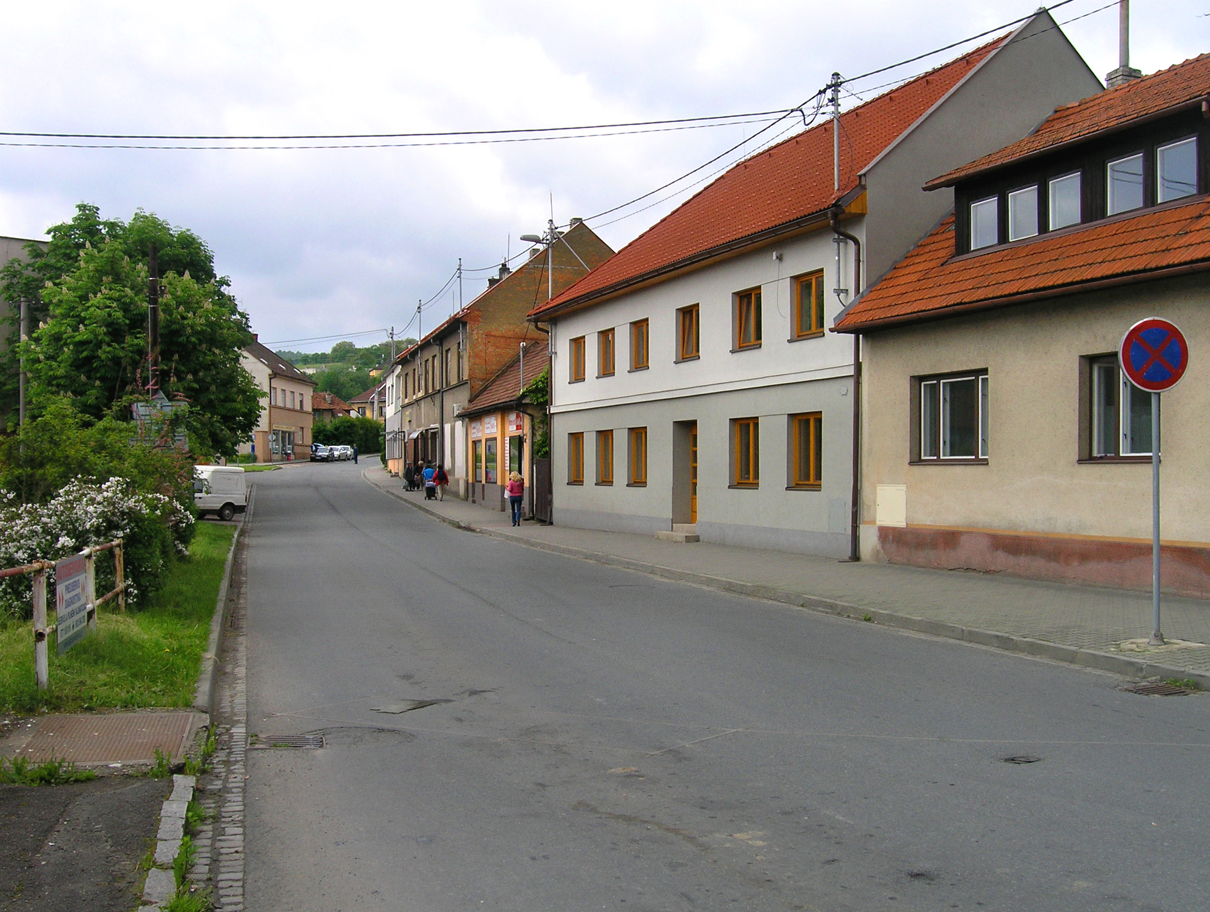 Podřevnická street in Želechovice nad Dřevnicí, Czech Republic